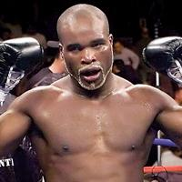 Terry Gagnon took this shot for his collection on April 2, 2005 when Jean-Marc Mormeck was facing Wayne Braithwaite. Later, he offered me a copy of it. I asked him if I could display on some site so others could look at it. He then agreed.